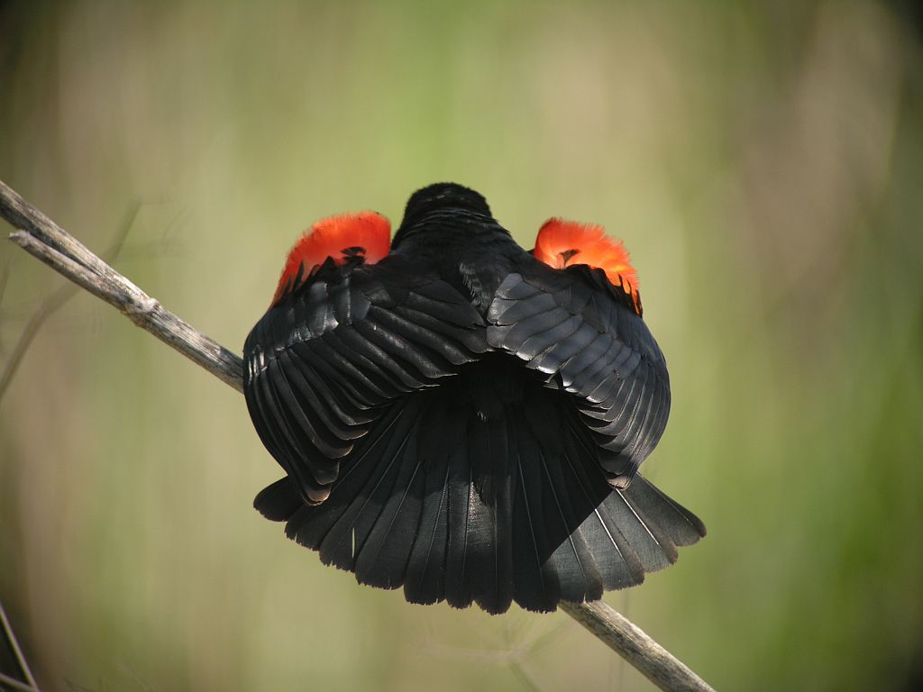 Unconventional view, but it works. Bolinas Lagoon Preserve of Audubon Canyon Ranch, California. The costal race of Red-winged Blackbird, Agelaius phoeniceus gubernator, lacks the yellow band of median coverts, so we see only a red epaulet.